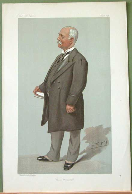 Statesmen No.670: Caricature of Sir Francis Henry Evans KCMG MP. Caption reads: "Union Steamship"